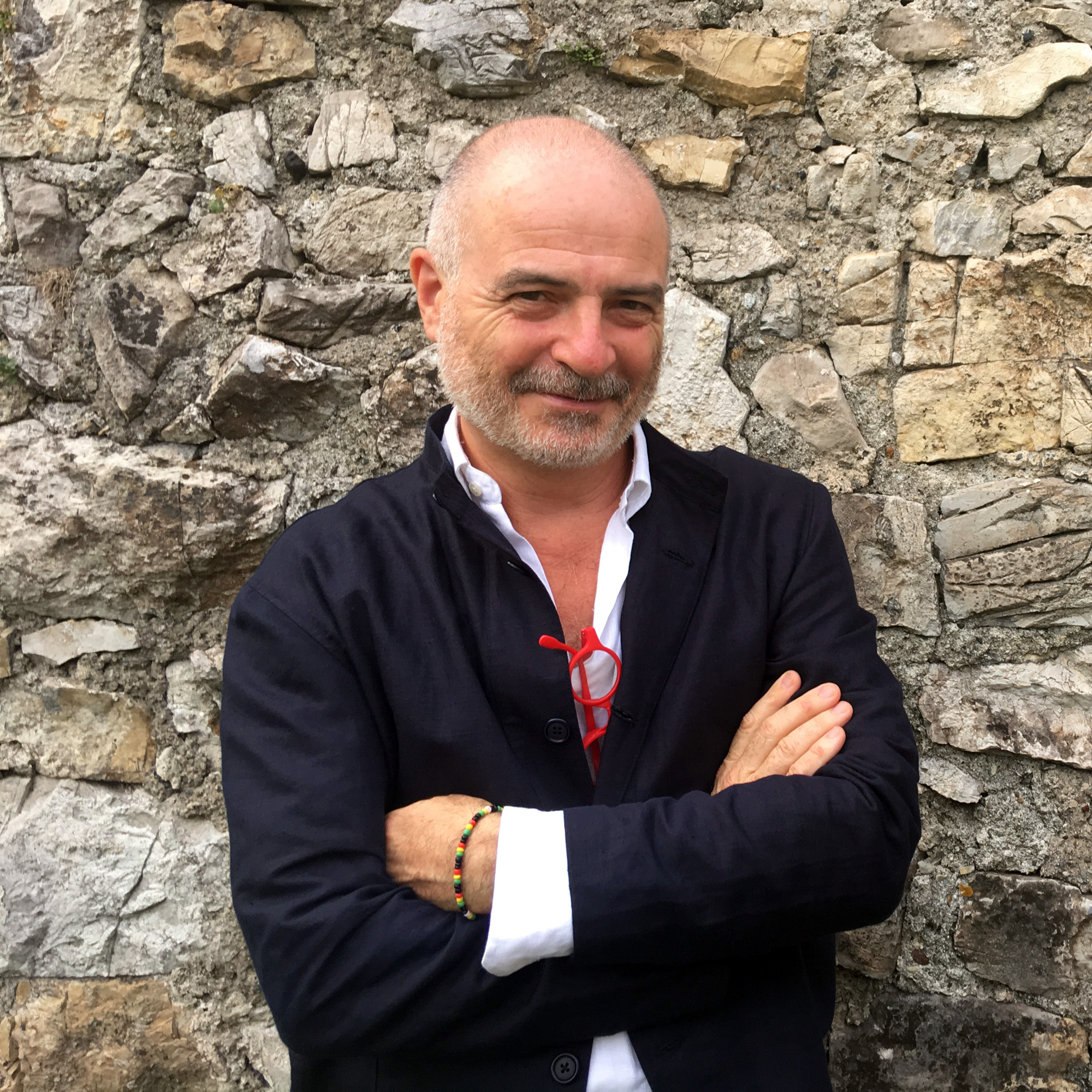 Portrait of the orchestra conductor and pianist Giovanni Battista Rigon